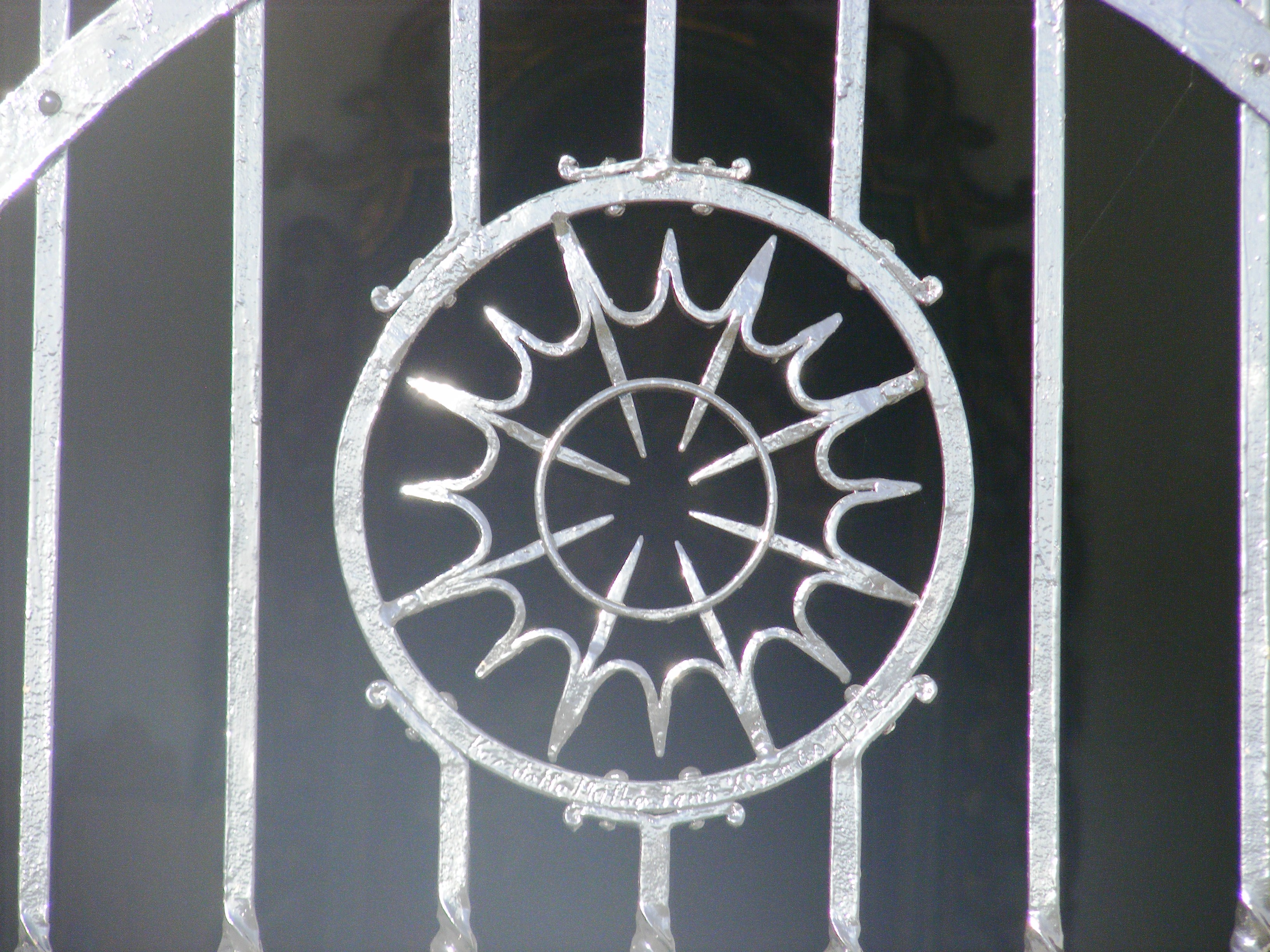 The sun's simbol on the Szent Antal kápolna's portal, Csíksomlyó